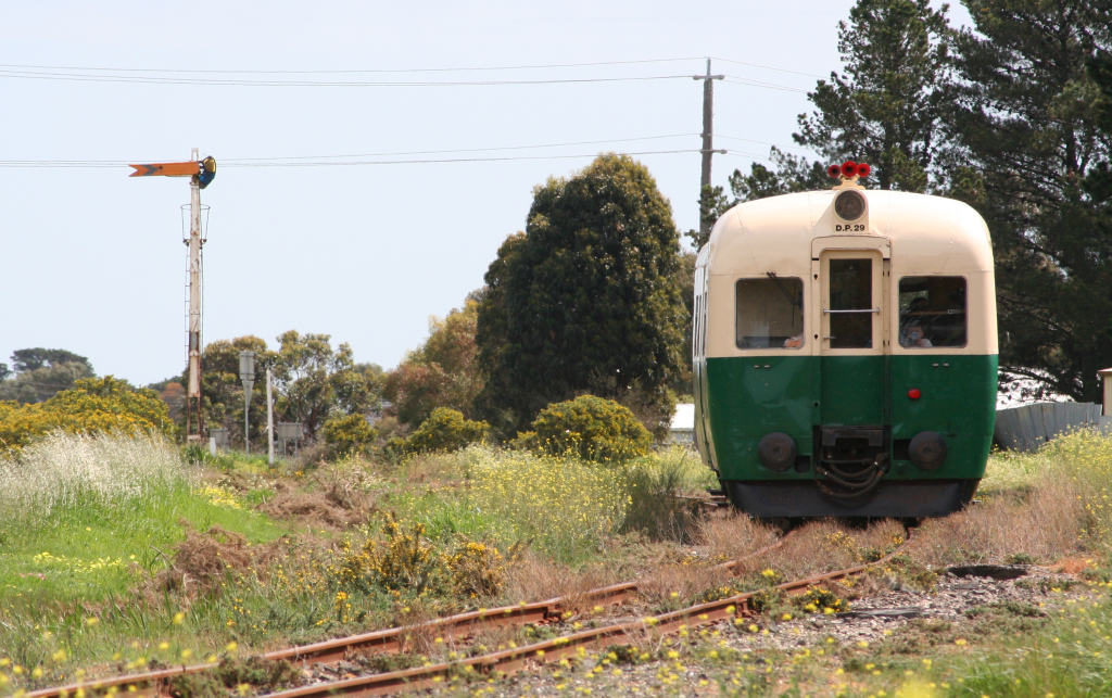 Ex Rail transport in Tasmania diesel railcar DP29 on the Bellarine Peninsula Railway, Victoria, Australia.